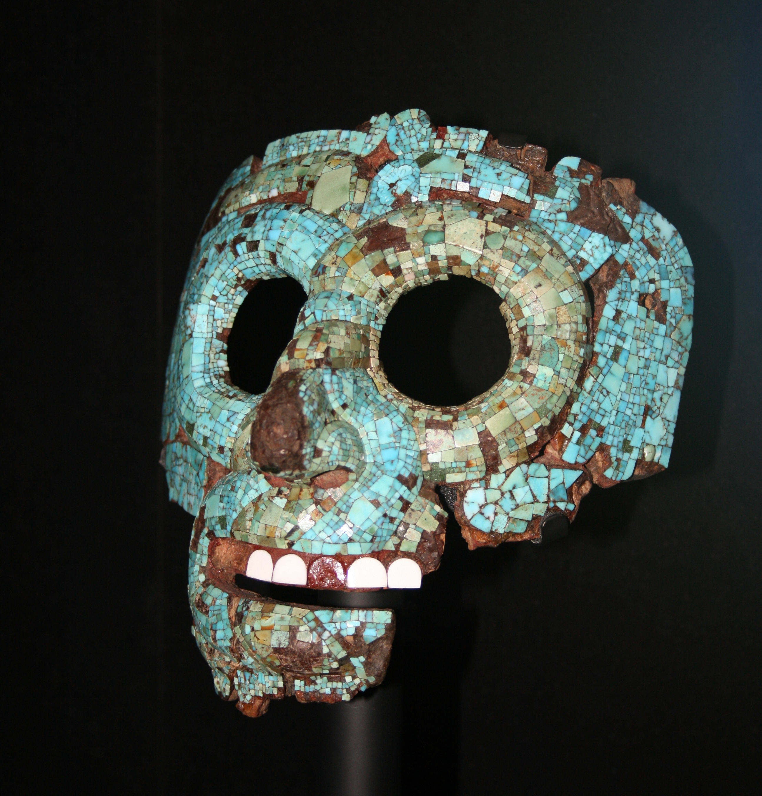 An Aztec or Mixtec mask of Quetzalcoatl, made of turqoise. (